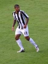 Joss labadie in action for Notts Co V Galatasaray